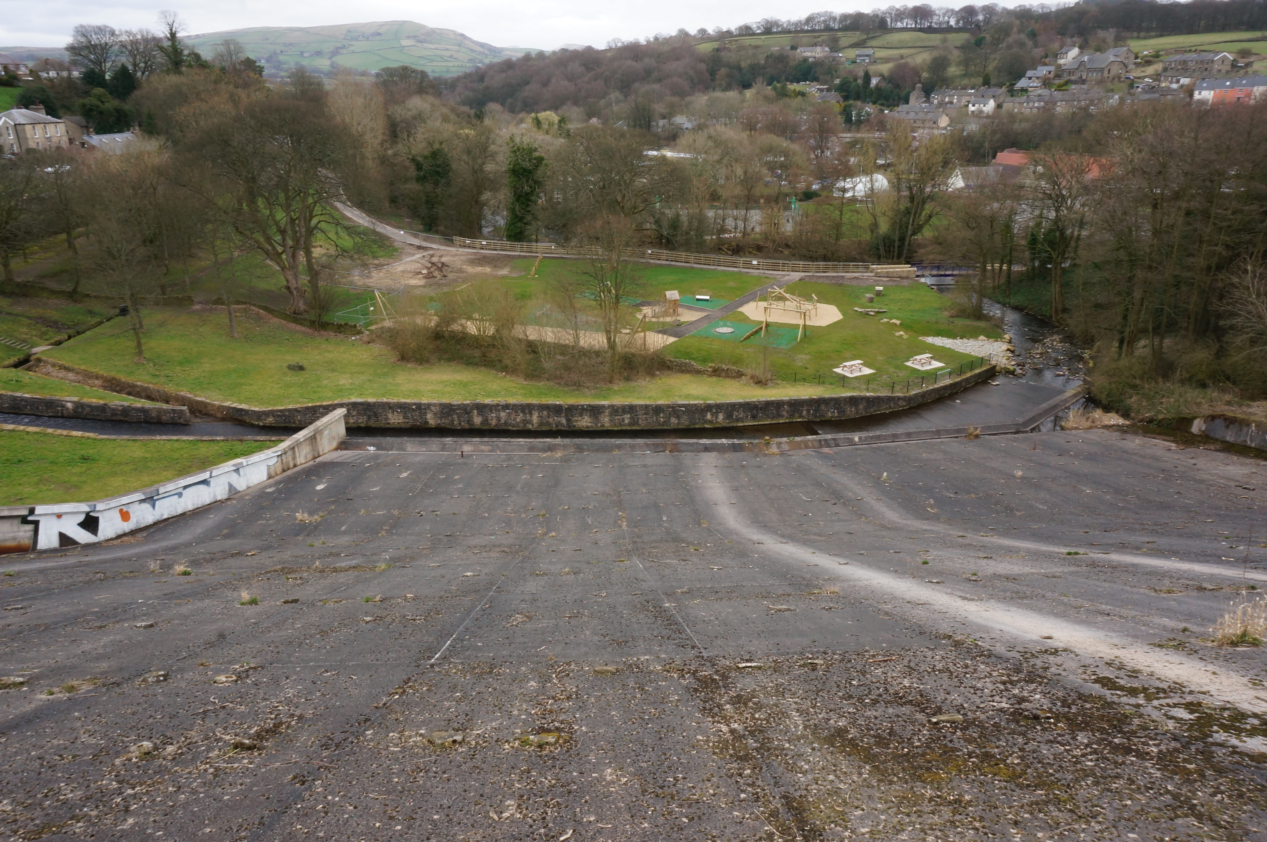 Playground under construction